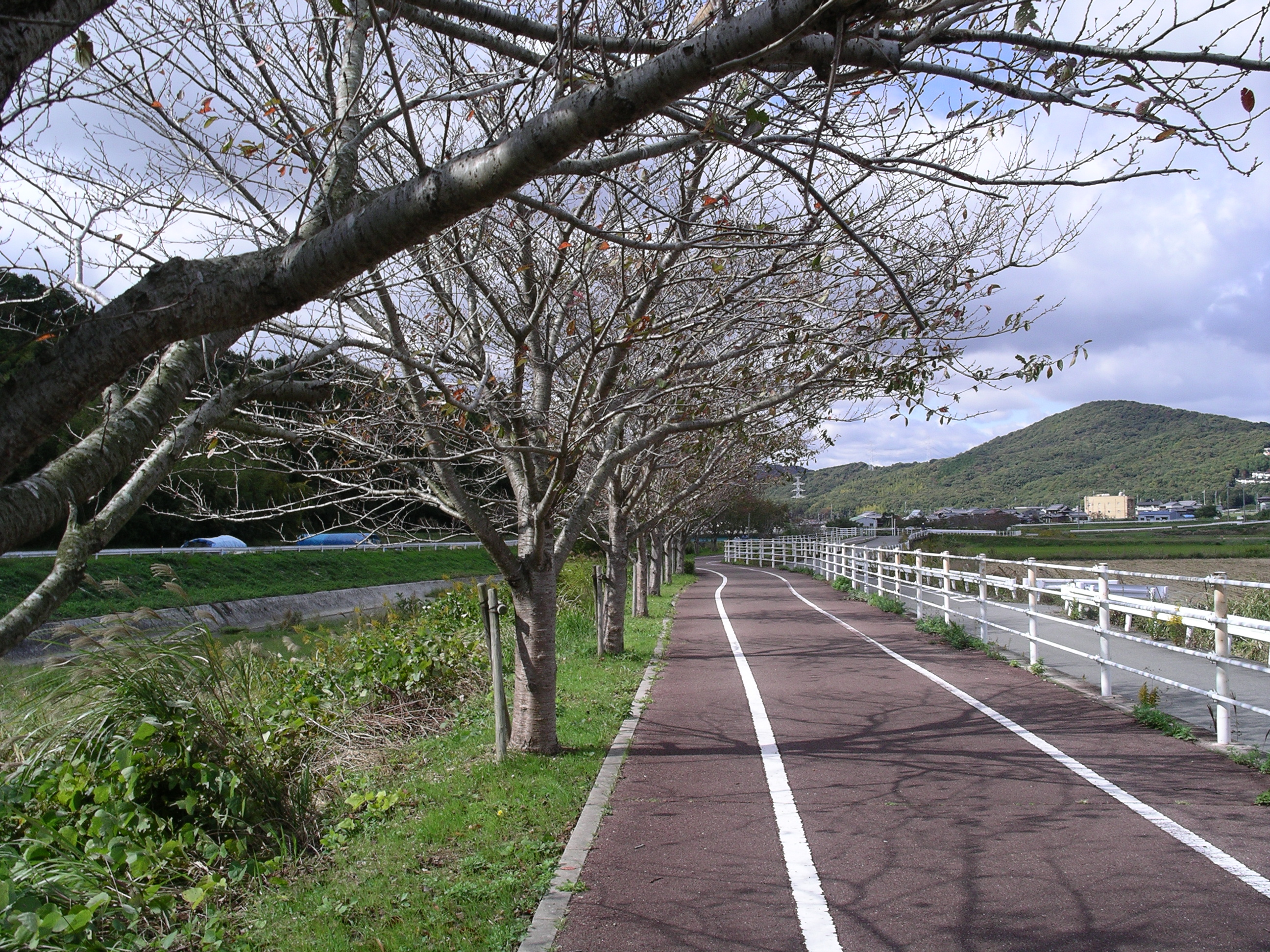 KANDE-YAMADA cycling way